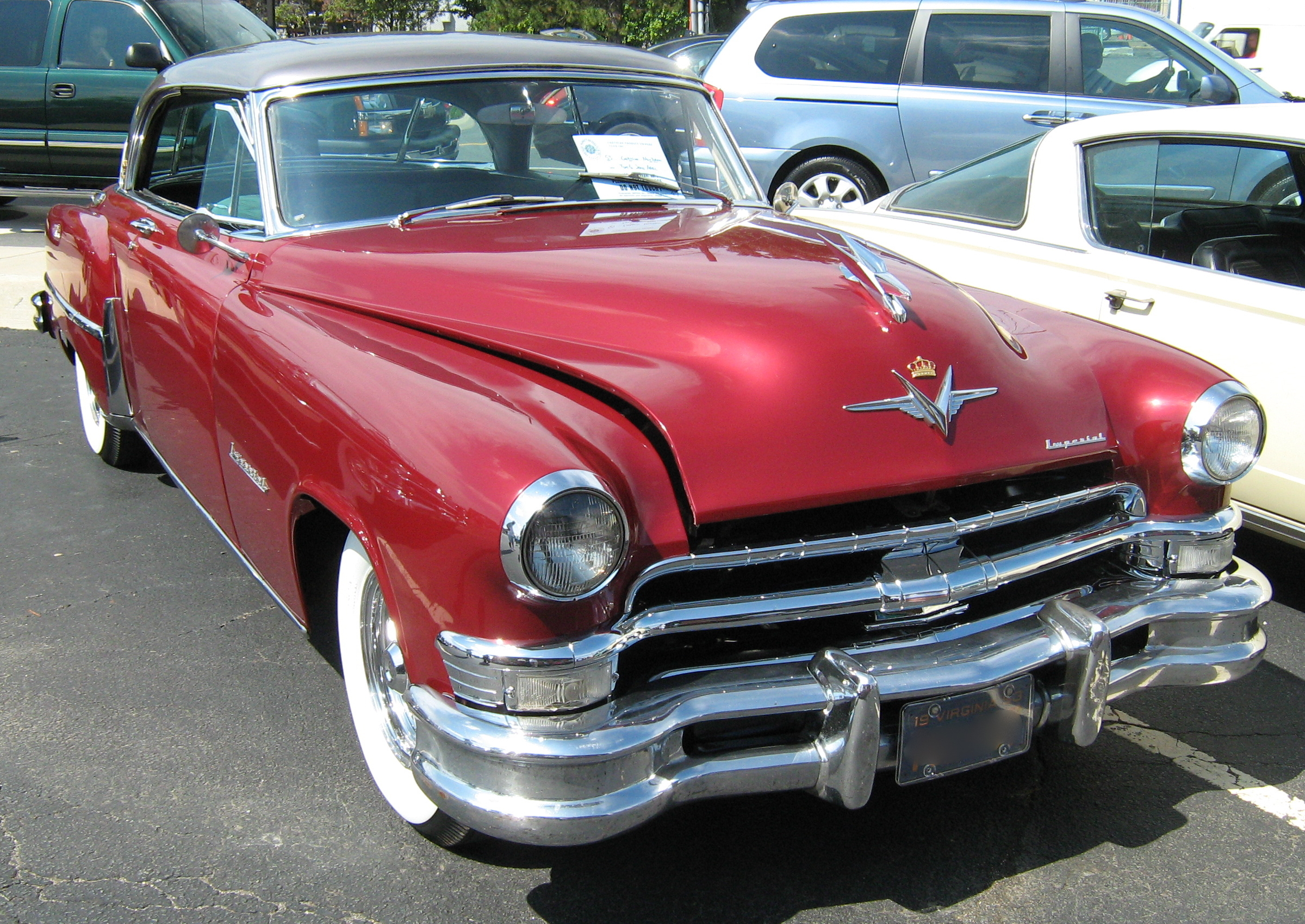 1953 Chrysler Imperial two door hardtop - front.